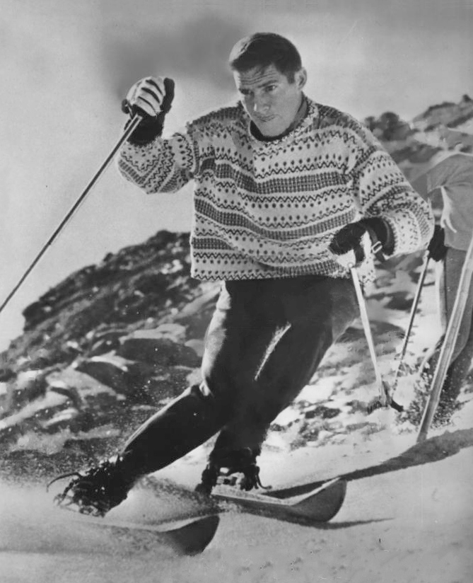 1963 Press Photo Olympic Downhill Racer Buddy Werner Trains, Boulder, Colorado